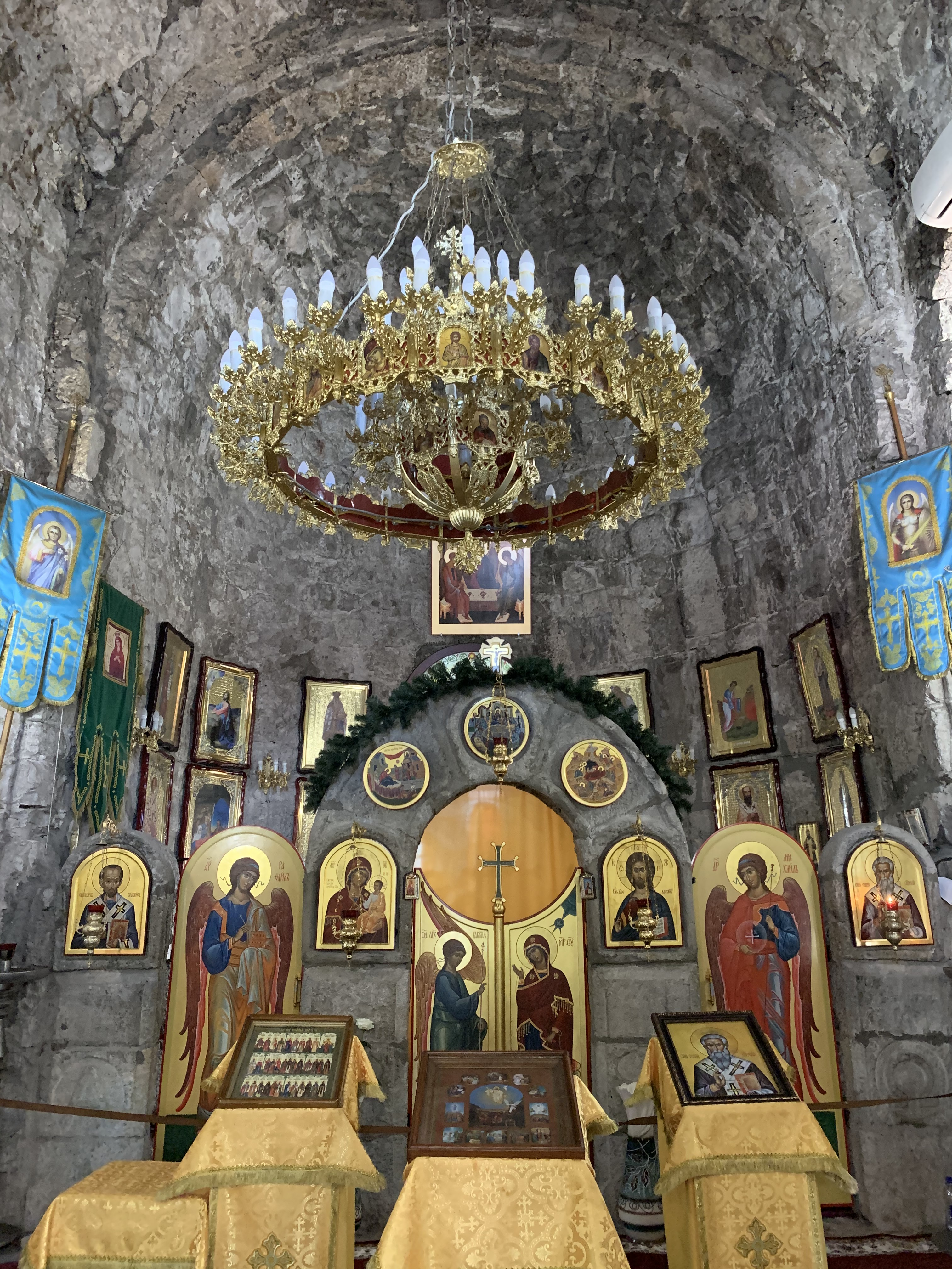 Interior of the Church of St. Hypatius, the fortress Abaata, Gagra, Abkhazia.